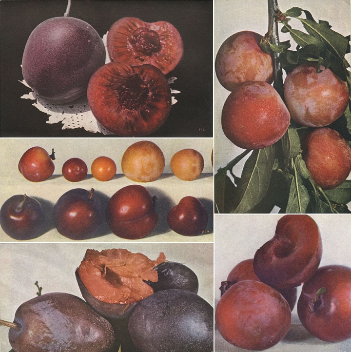 Blood plum of Satsuma (left upper), Burbank plum (right upper) and crossed plums between the Burbank and Satsuma